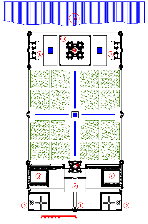 Plan of the Taj Mahal in Agra. Legend: 1) South Gate 2) Saheli Burj 3) left side Fahtepuri Gate, right side Fatehbad Gate 4) Forecourt 5) Main Gate 6) Mosque 7) Mehman Khana 8) Mausoleum 9) one of the minarets 10) River Yamuna. Not numbered in this map is the garden (green shaded) called Char Bagh and the gates on each side of the gardens called Naubat Khana.